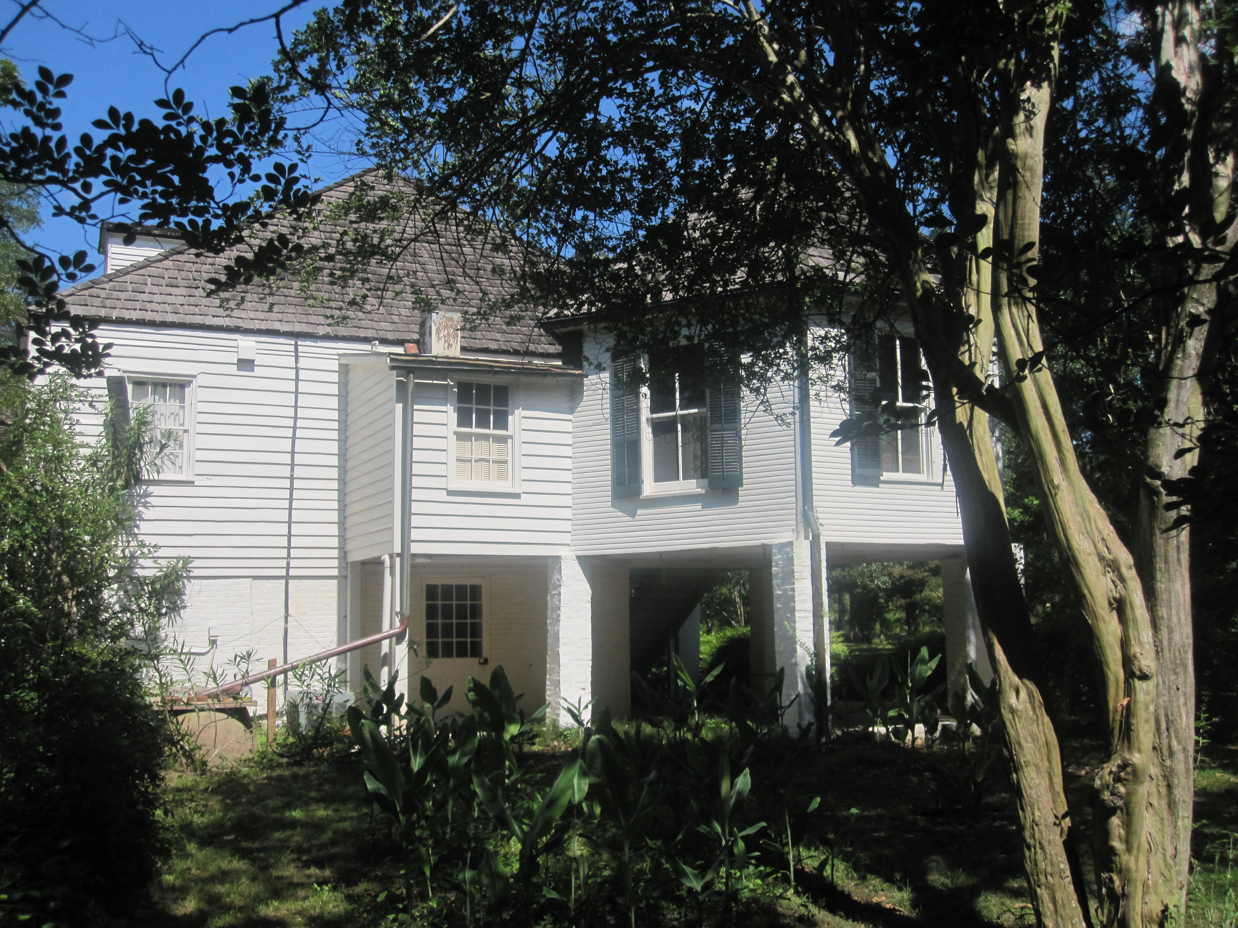 I took photo with Canon camera.